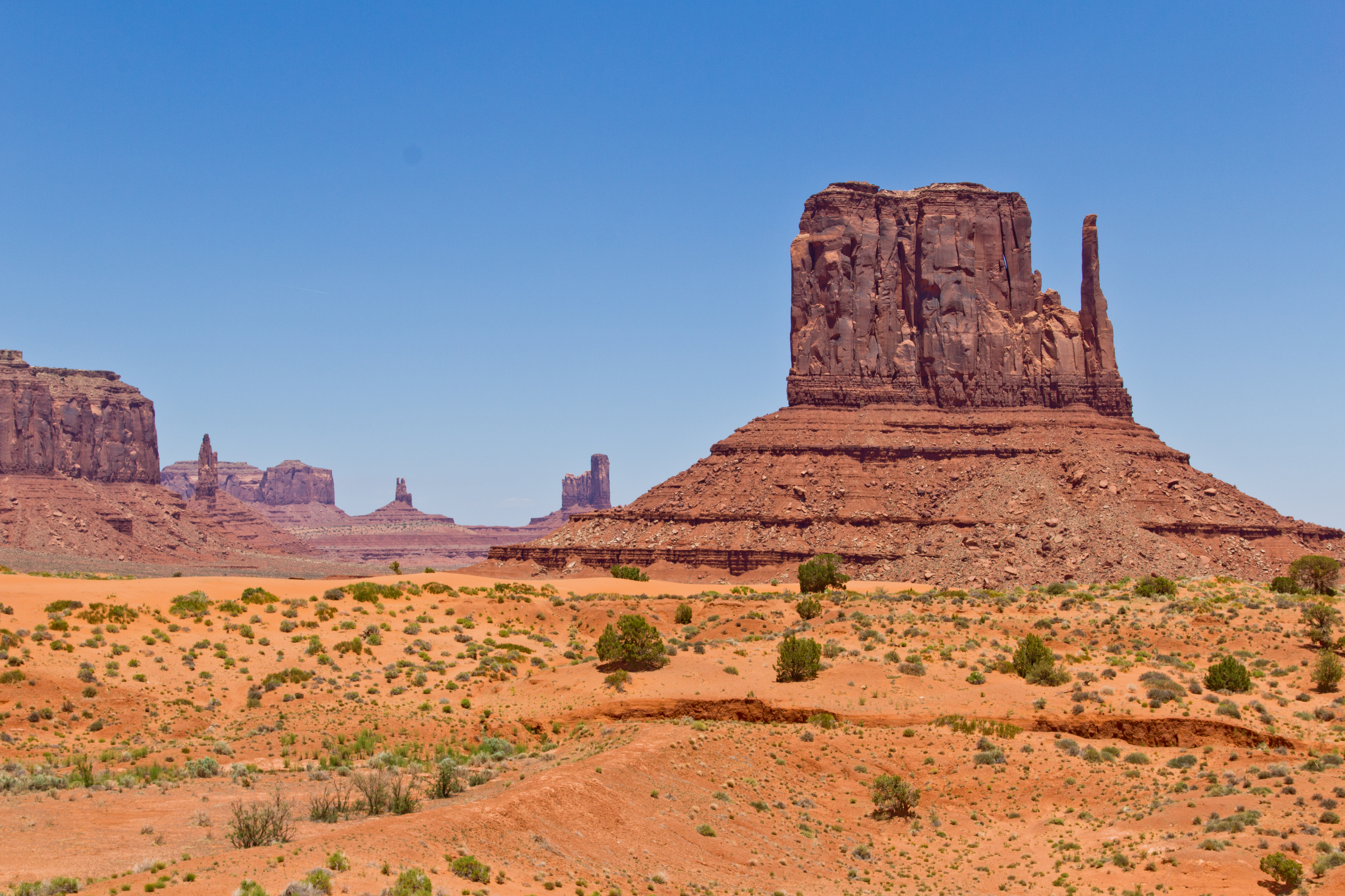 Beautiful scenic look at Monument Valley. Arizona and West Mitten Butte, right (south), Utah, north at left. (See: West and East Mitten Buttes) The (vertical)-De Chelly Sandstone, upon 'skirts' of Organ Rock Formation.